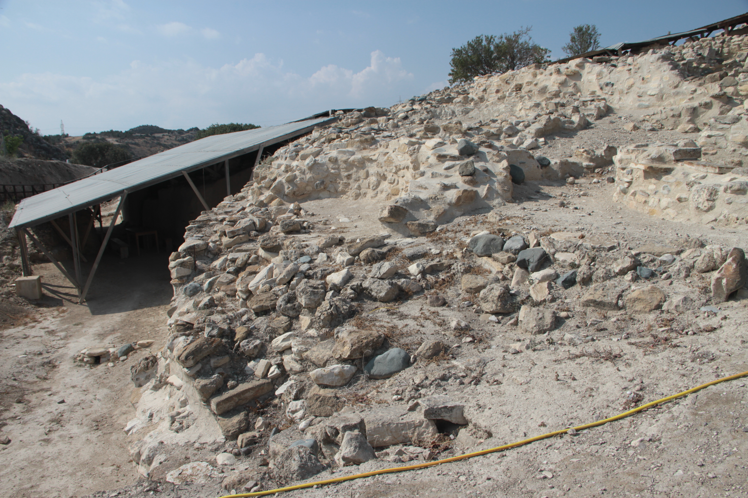 UNESCO world heritage site. Houses from circa 6000 BC. Located approx 30Km SW of Larnaka, Cyprus